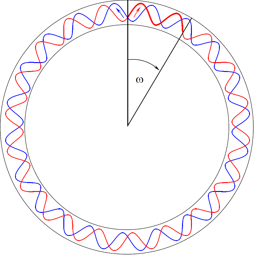 Sagnac Phase Shift